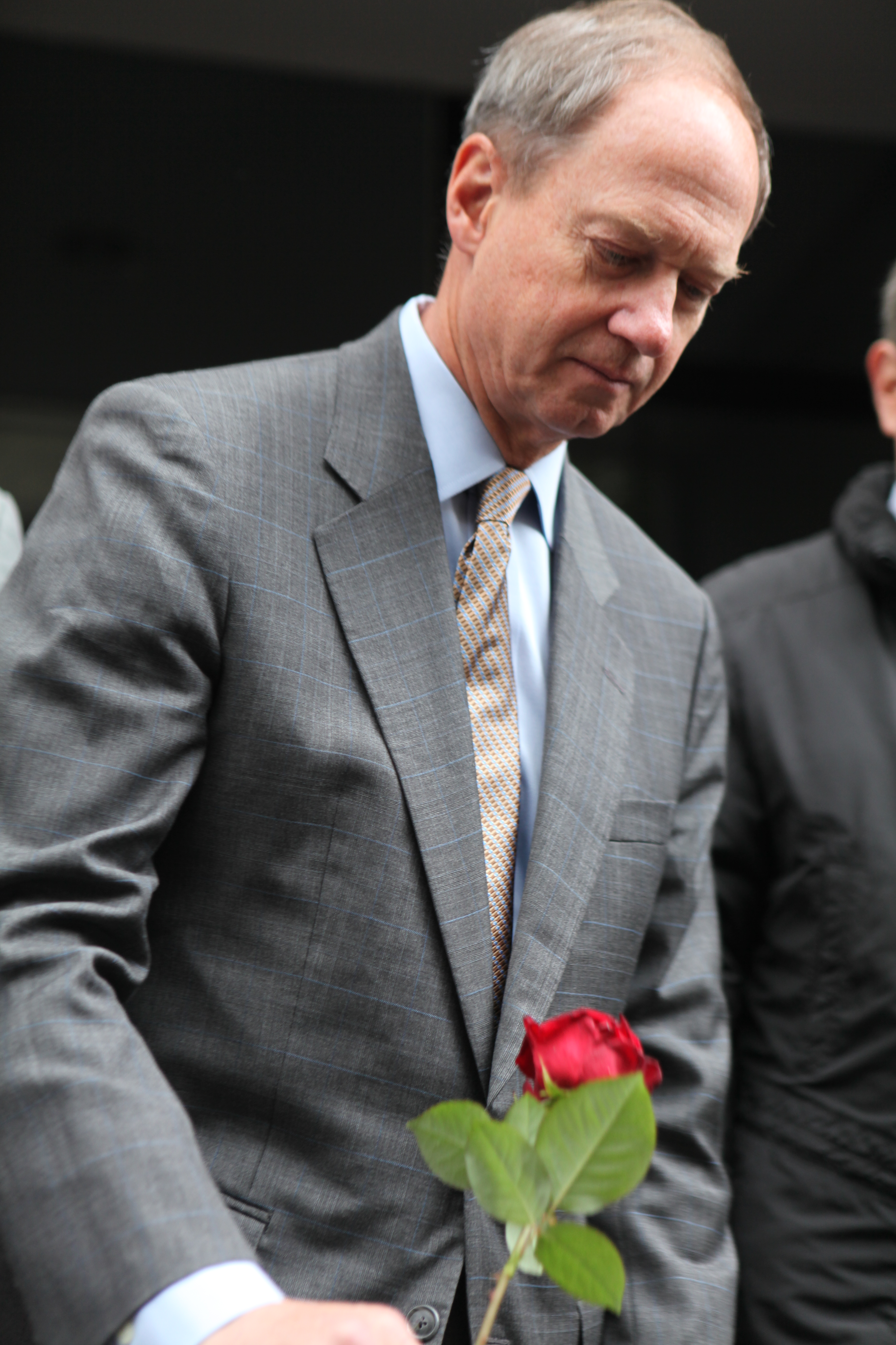 U.S. Ambassador John B. Emerson on September 20, 2013 at the installation ceremony of two Stolpersteine commemorating the "Red Orchestra" resistance fighters Mildred Fish-Harnack and her husband Arvid Harnack in Berlin, Genthiner Str. 14